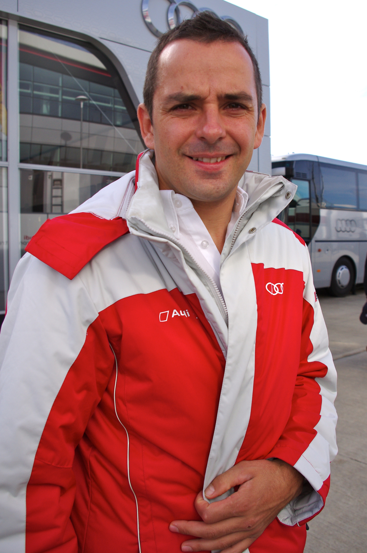 WEC Silverstone 6 Hours 2013: Benoît Tréluyer (Audi Sport Team Joest)